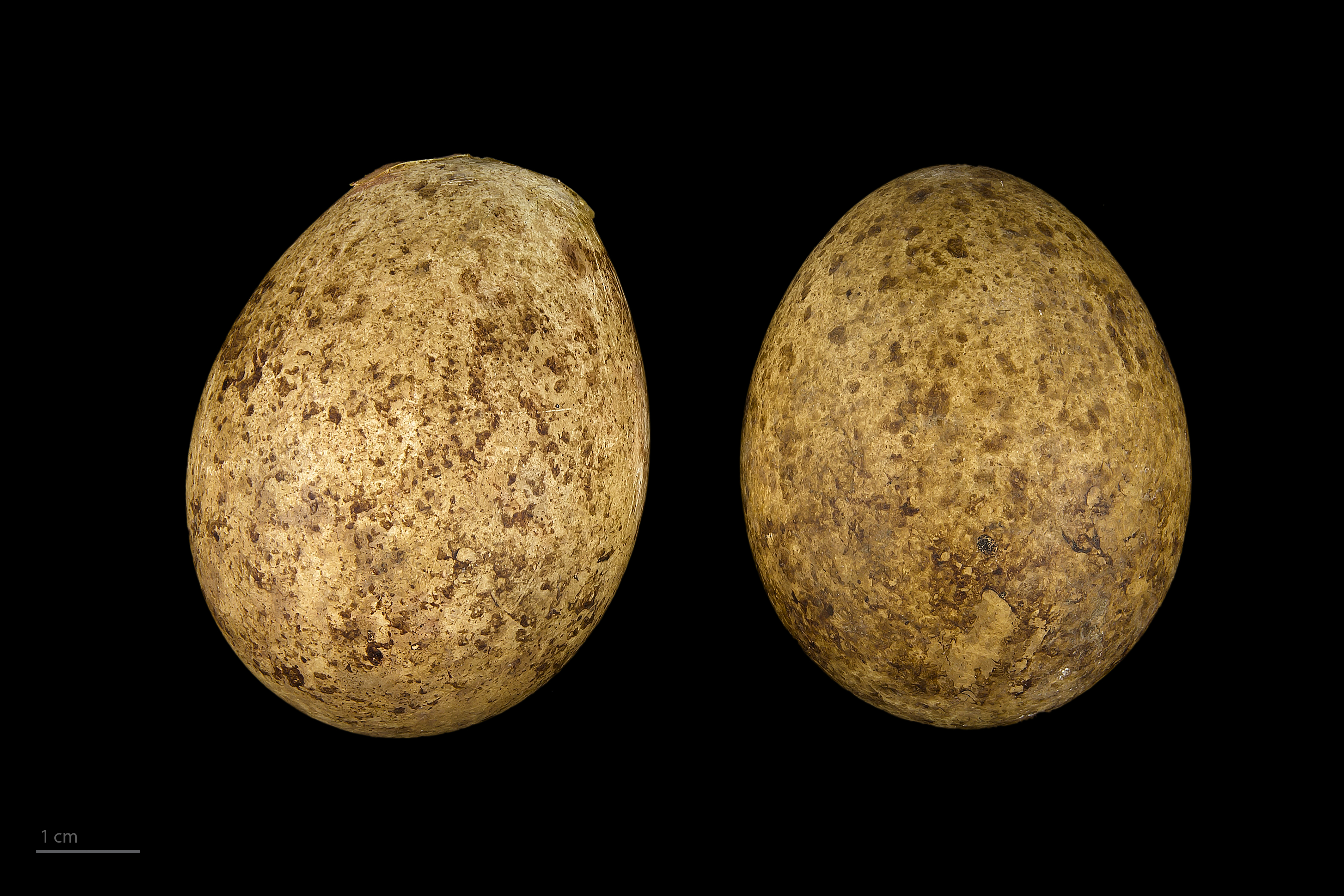 Eggs of peregrine falcon Two specimens of the same spawn ; collection of Jacques Perrin de Brichambaut.